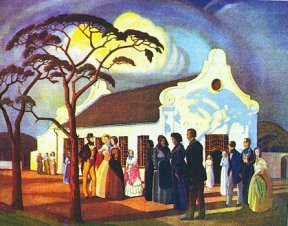 JH Pierneef: Geloftekerk.